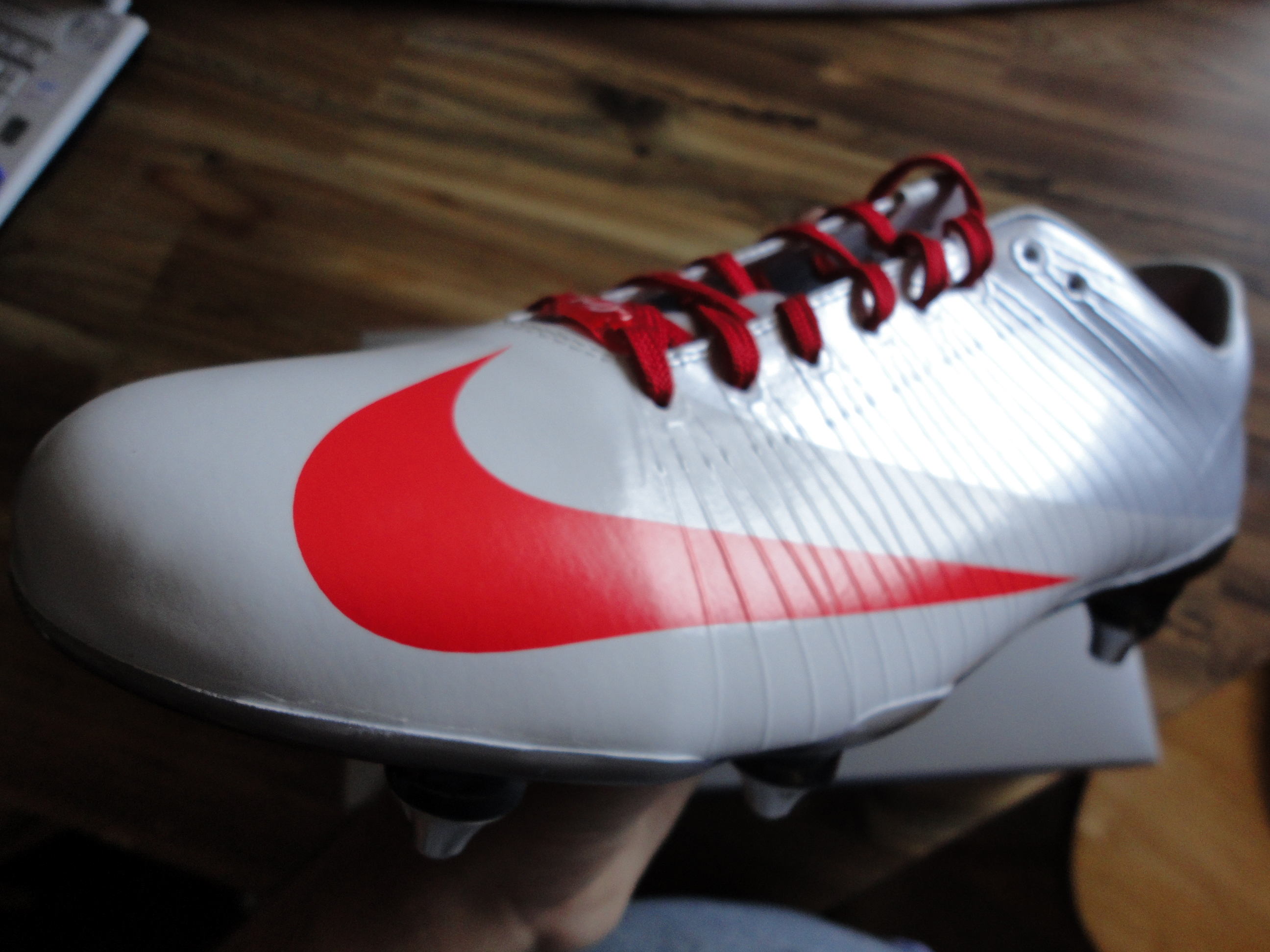 Nike Mercurial Vapor Superfly Platinum/Red/White Soft Ground